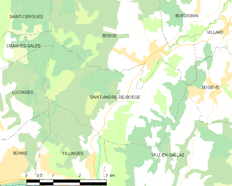 Map of French municipality Saint-André-de-Boëge